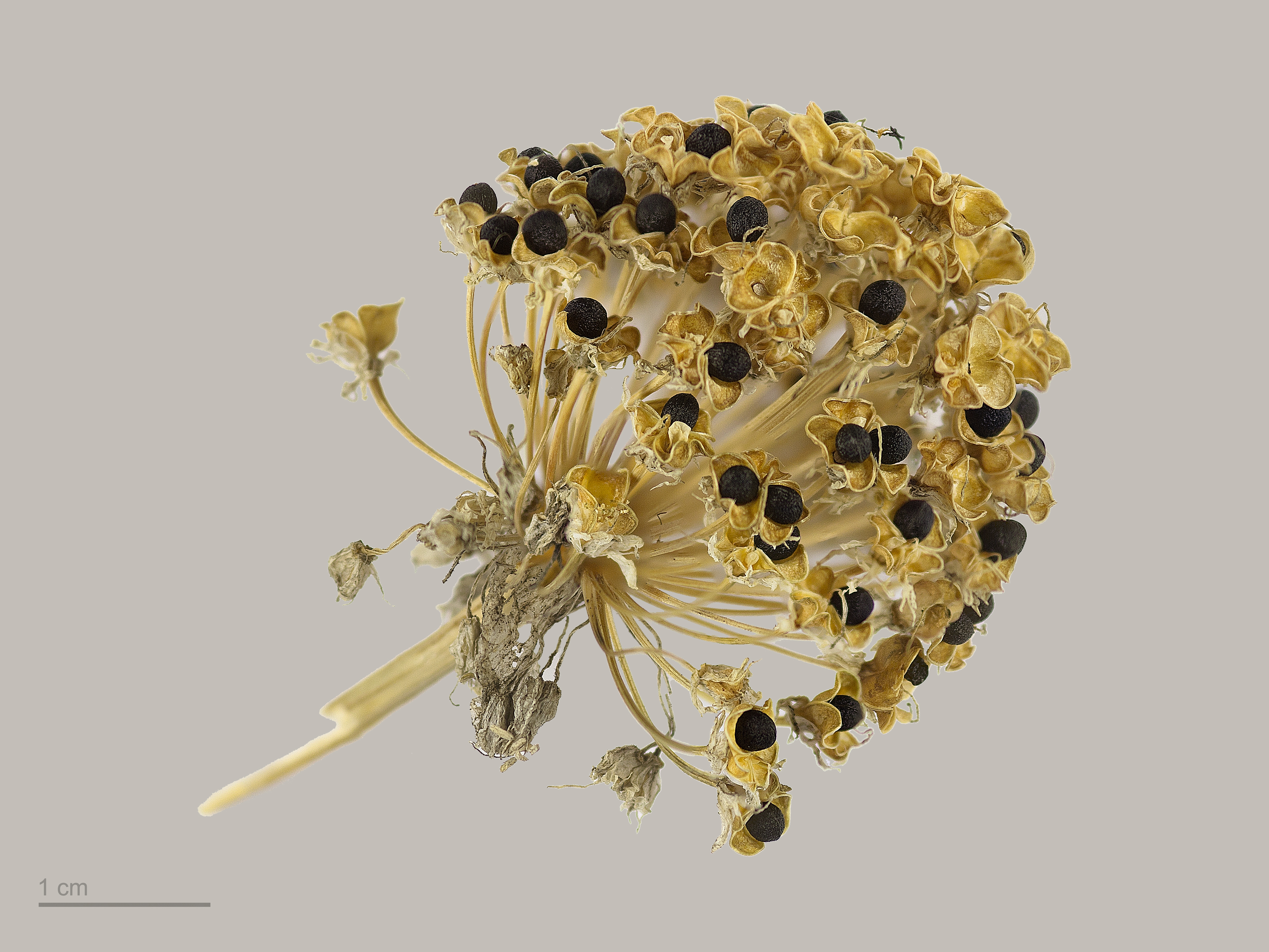 victory onion , fruits and seeds